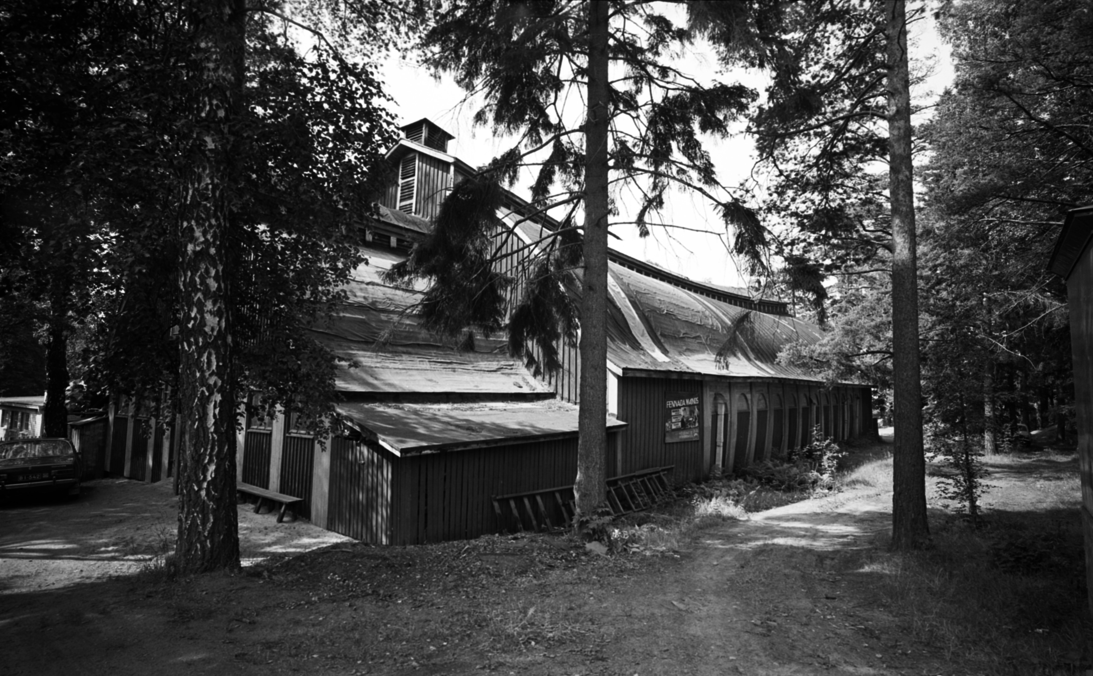 Photograph of the studio hall of Fennada-Filmi in Kulosaari, Helsinki.